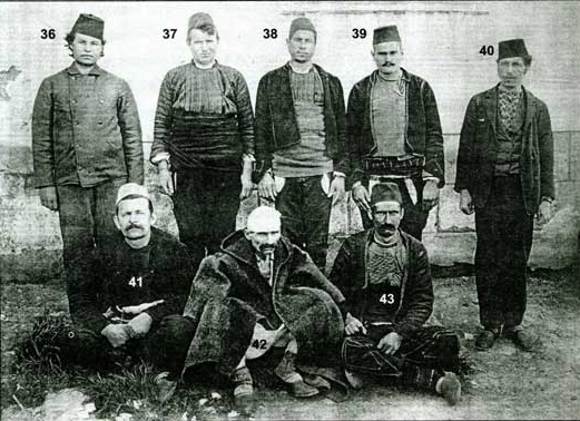 Slavcho Abazov - IMARO revolutionary, and other people from Kratovo Region as prisoners in Skopje, Ottoman empire